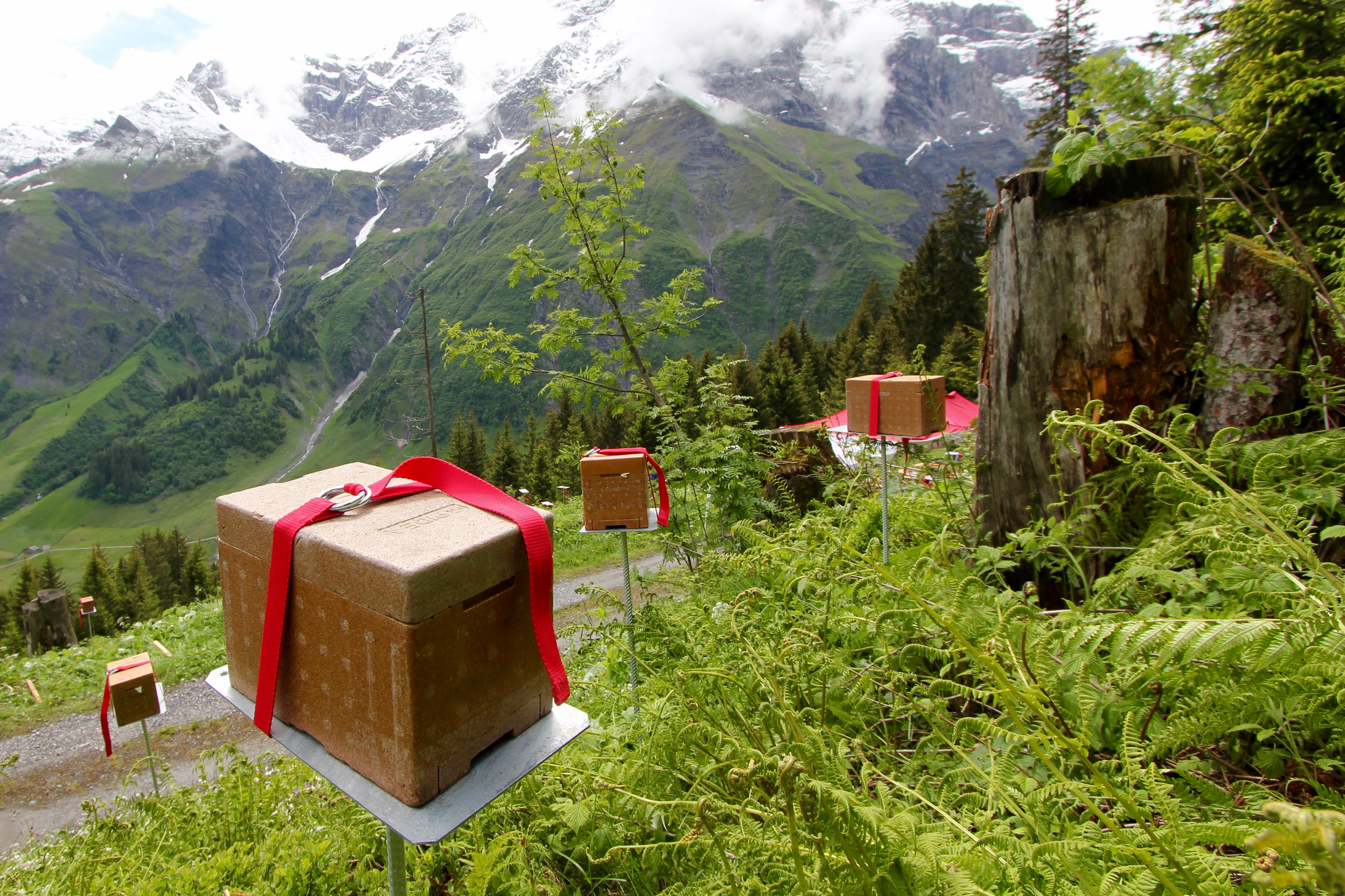 Mating nuc (Apidea box) on the isolated mating location for dark bees (Apis mellifera mellifera) in Sernftal, Glarus, Switzerland.